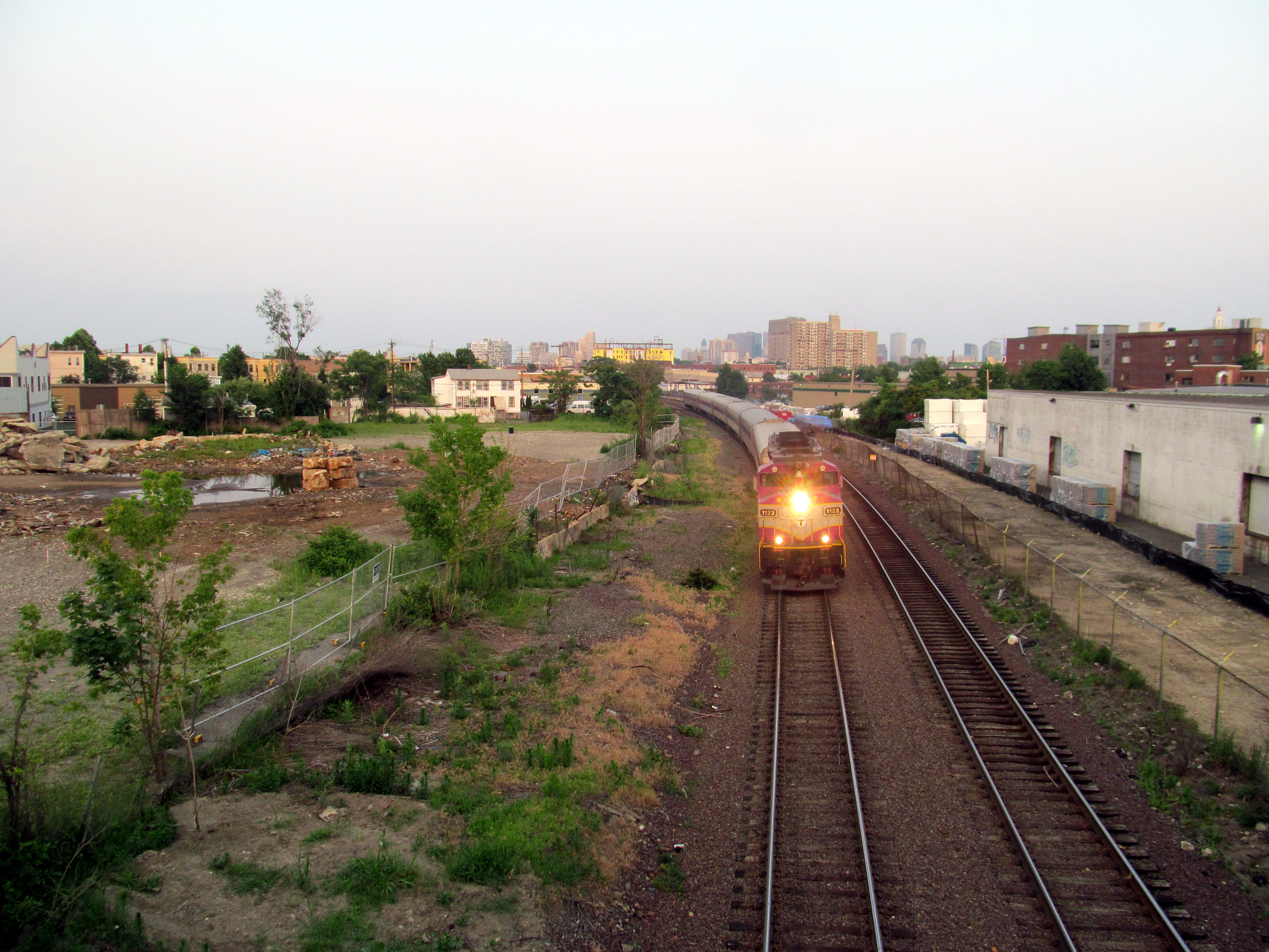 An outbound Fitchburg Line train passes the cleared site of the planned Union Square station in July 2015